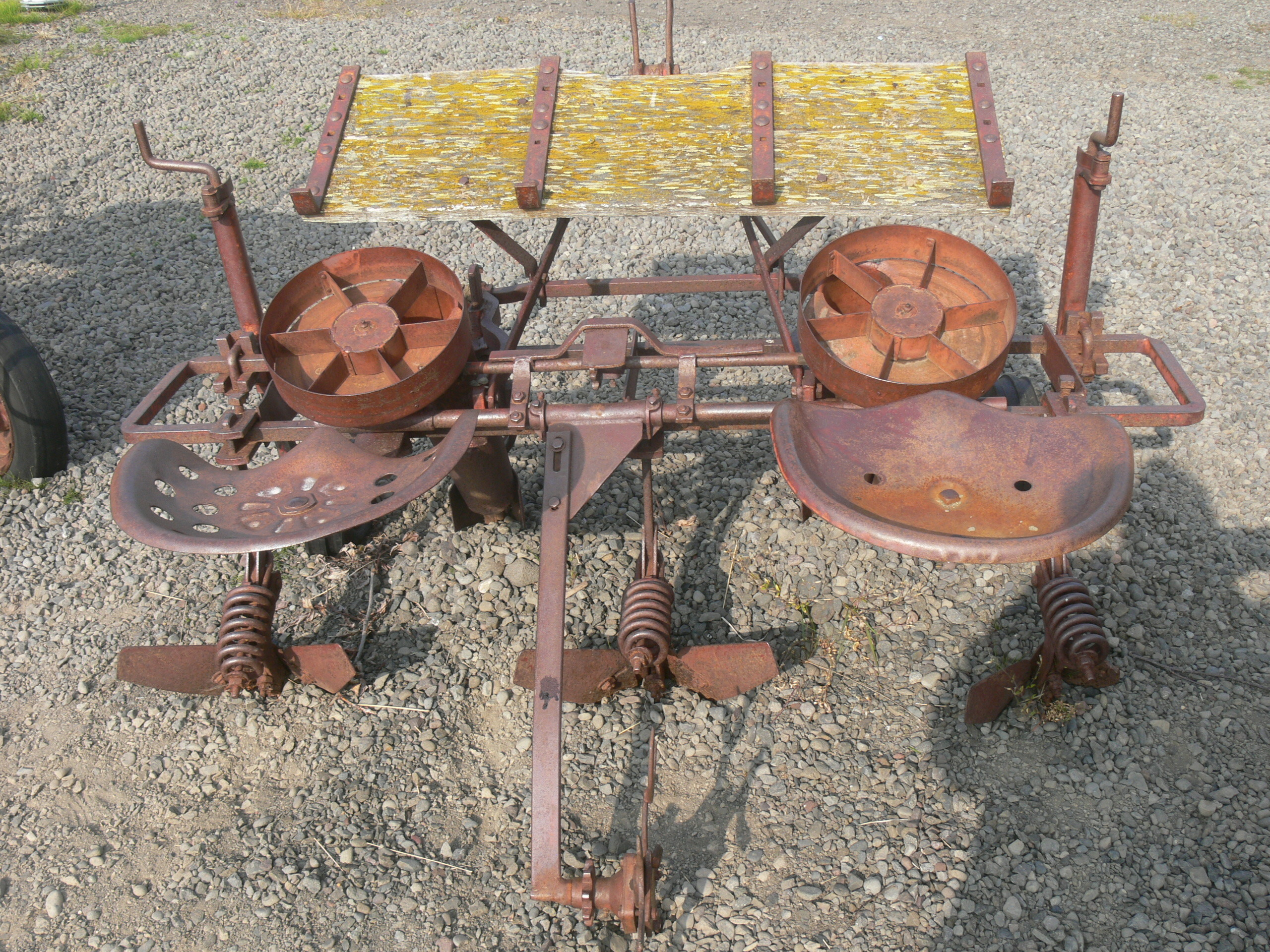 Laufas. Museum: Farming tools - potato planter.